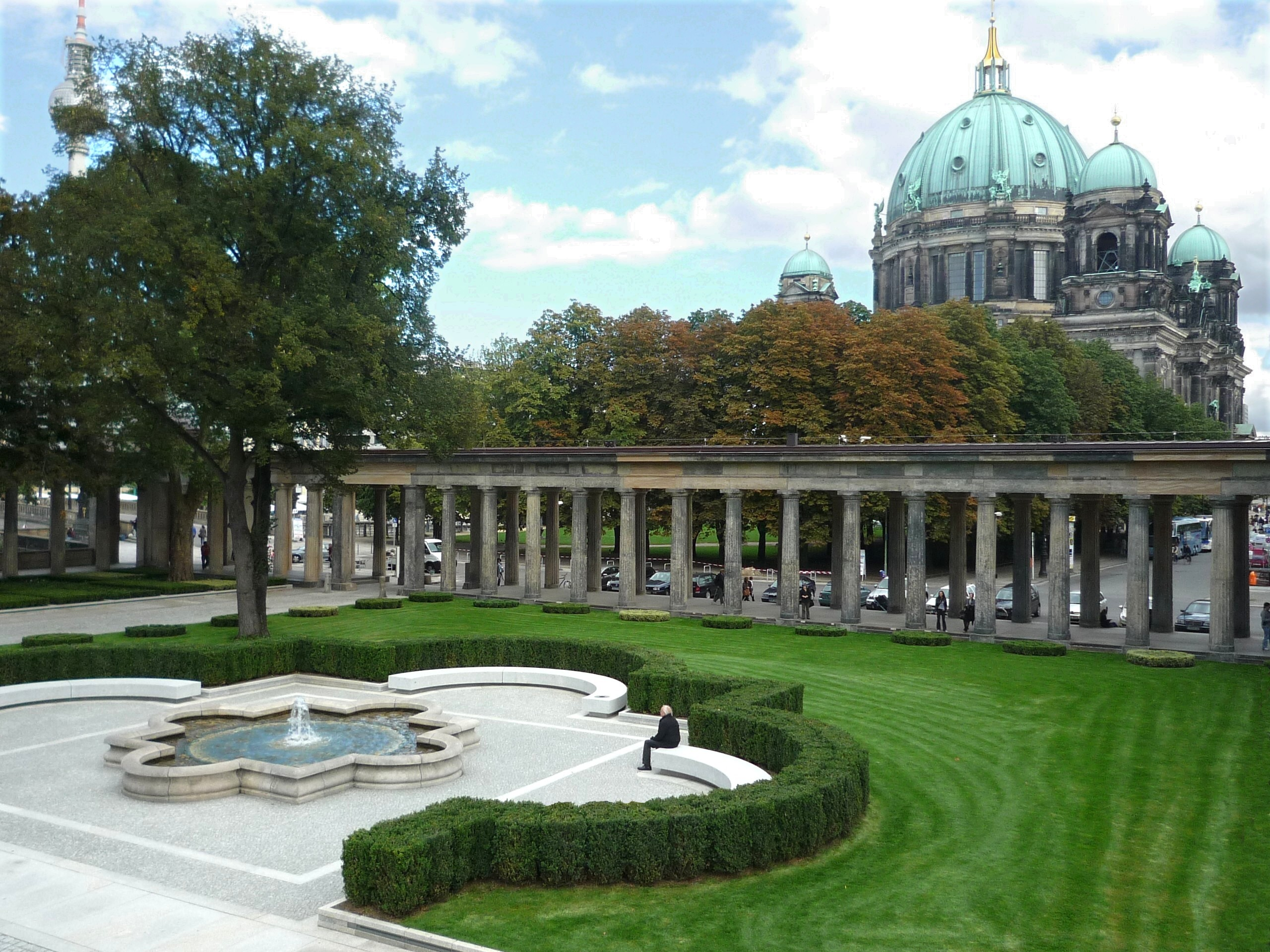 Berlin, Museumsinsel. The court-yard with colonnades in front of Neues Museum and Alte Nationalgalerie. View to the cathedral of Berlin.